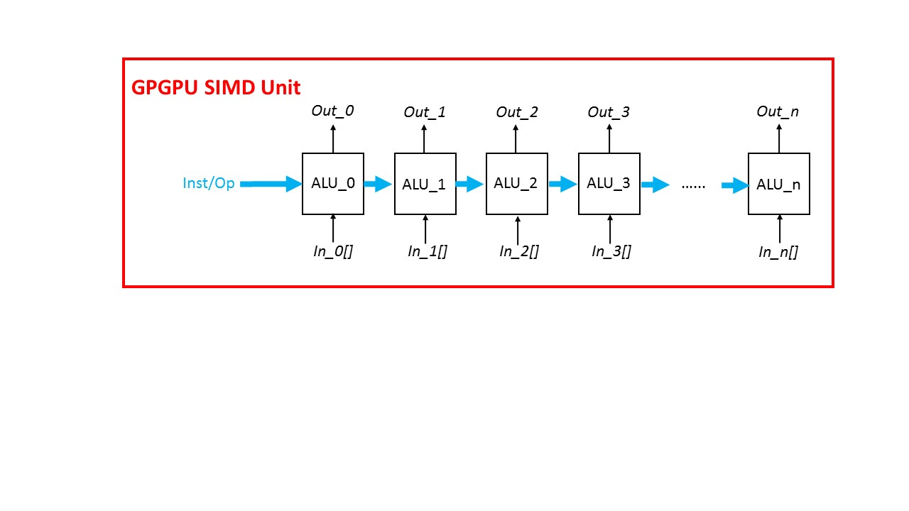 A SIMD/vector execution unit in GPGPUs